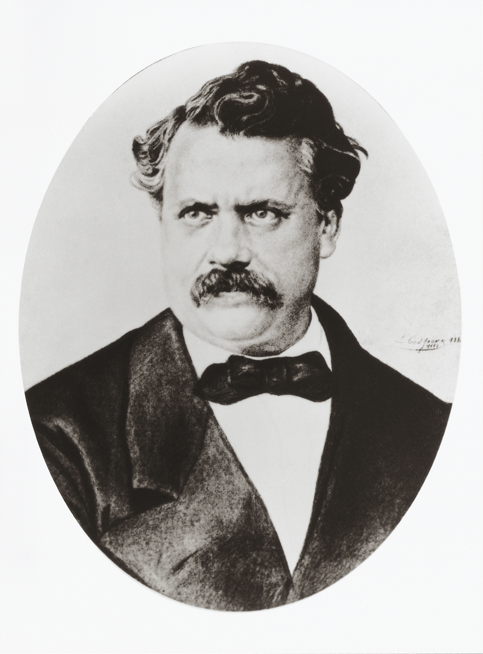 Portrait of Louis Vuitton (1821-1892), founder of the House of Vuitton